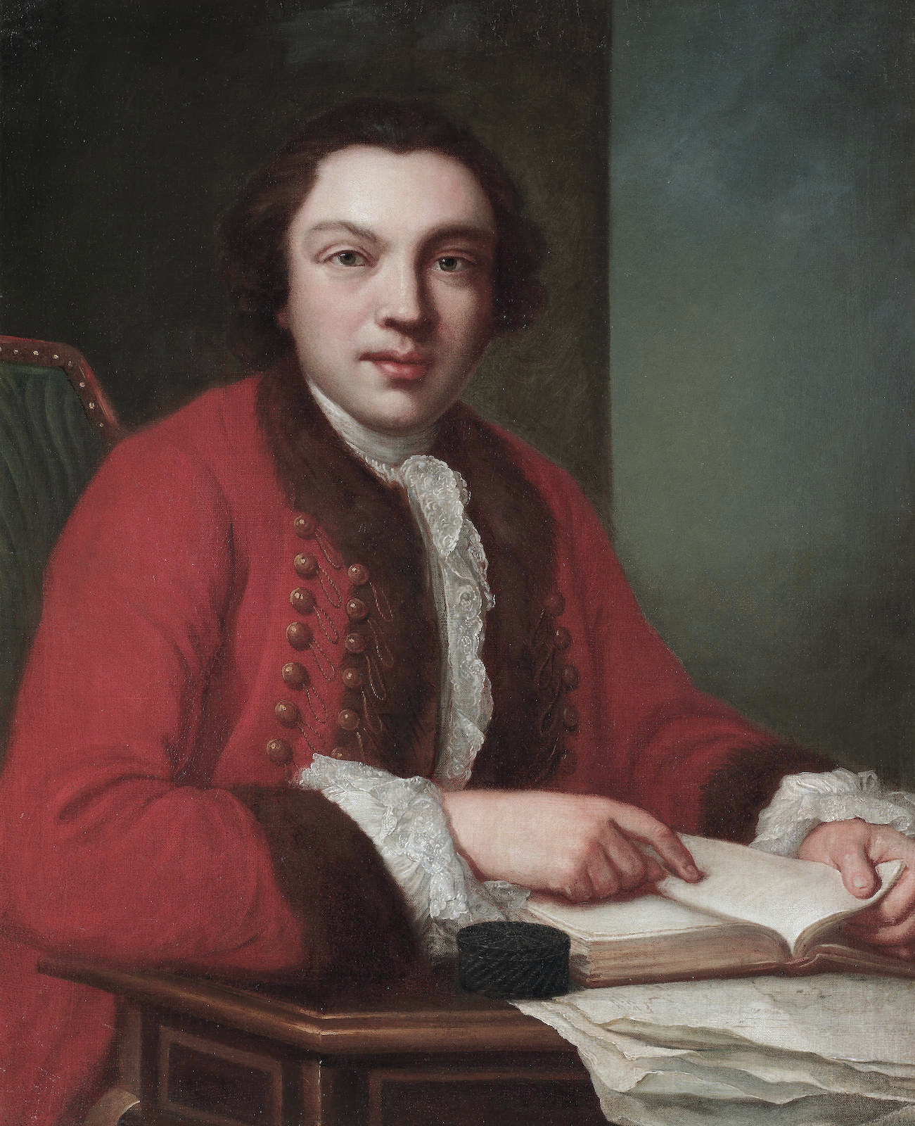 Spranger Barry oil on canvas 78.7 x 63.5 cm